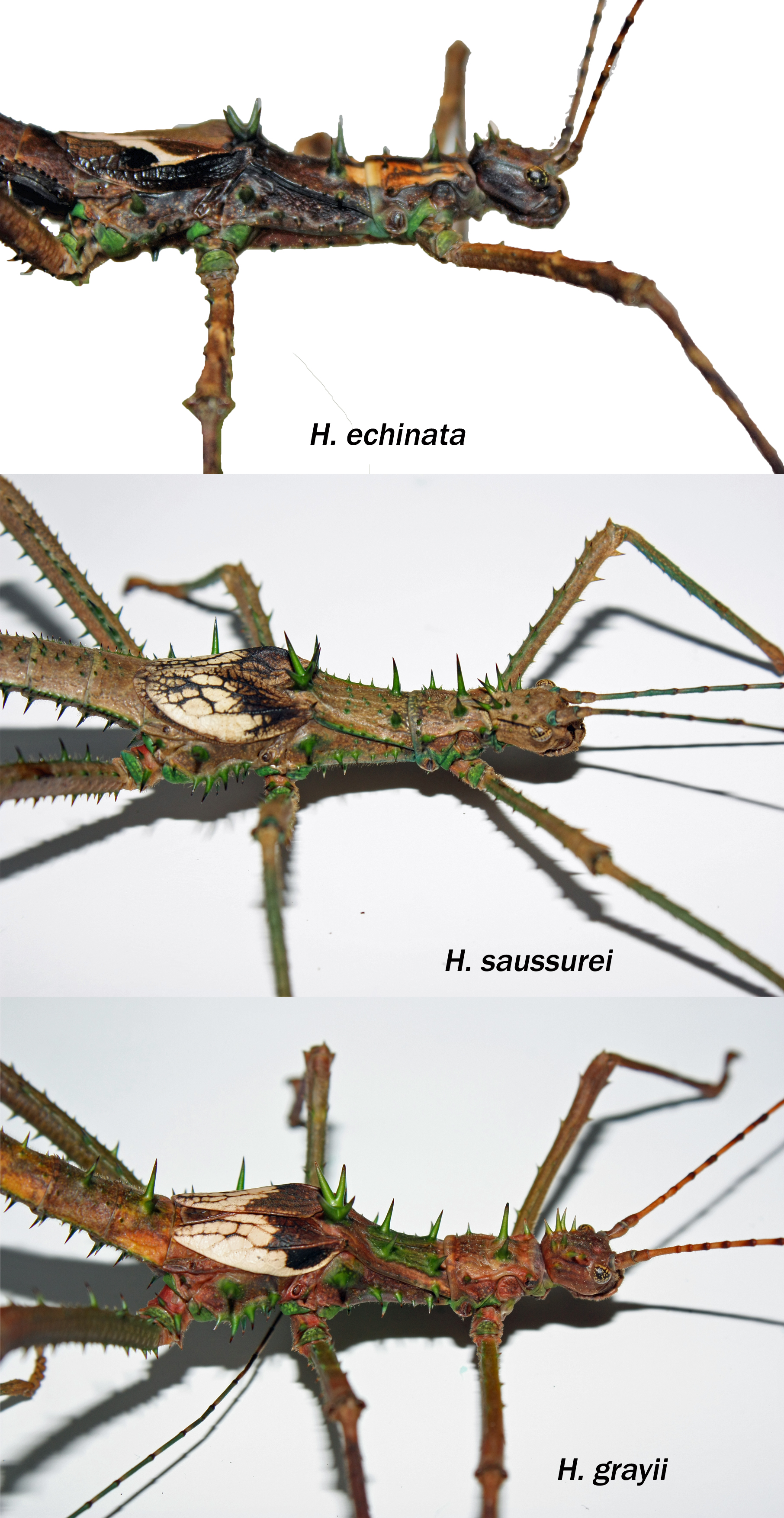 comparing of thorax spines of males from Haaniella echinata, H. sausurei and H. grayii